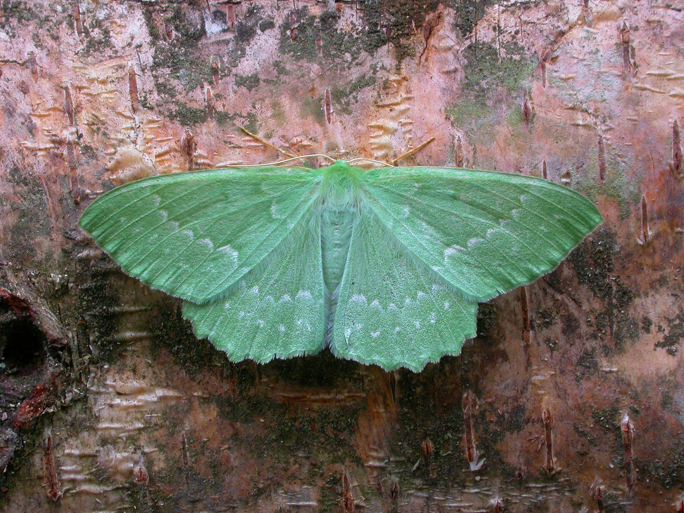 Uffmoor Wood, Worcestershire.